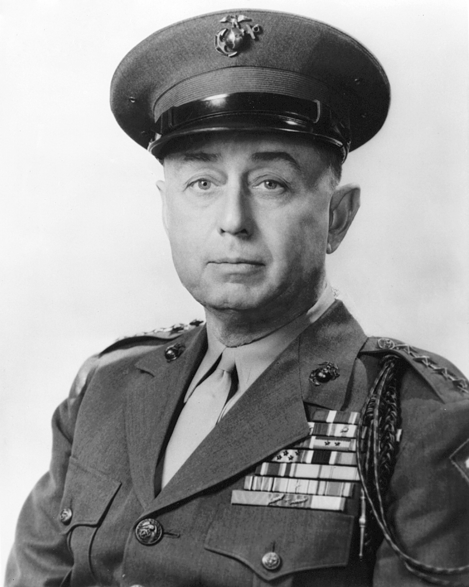 General Clifton B. Cates, USMC, Commandant of the Marine Corps